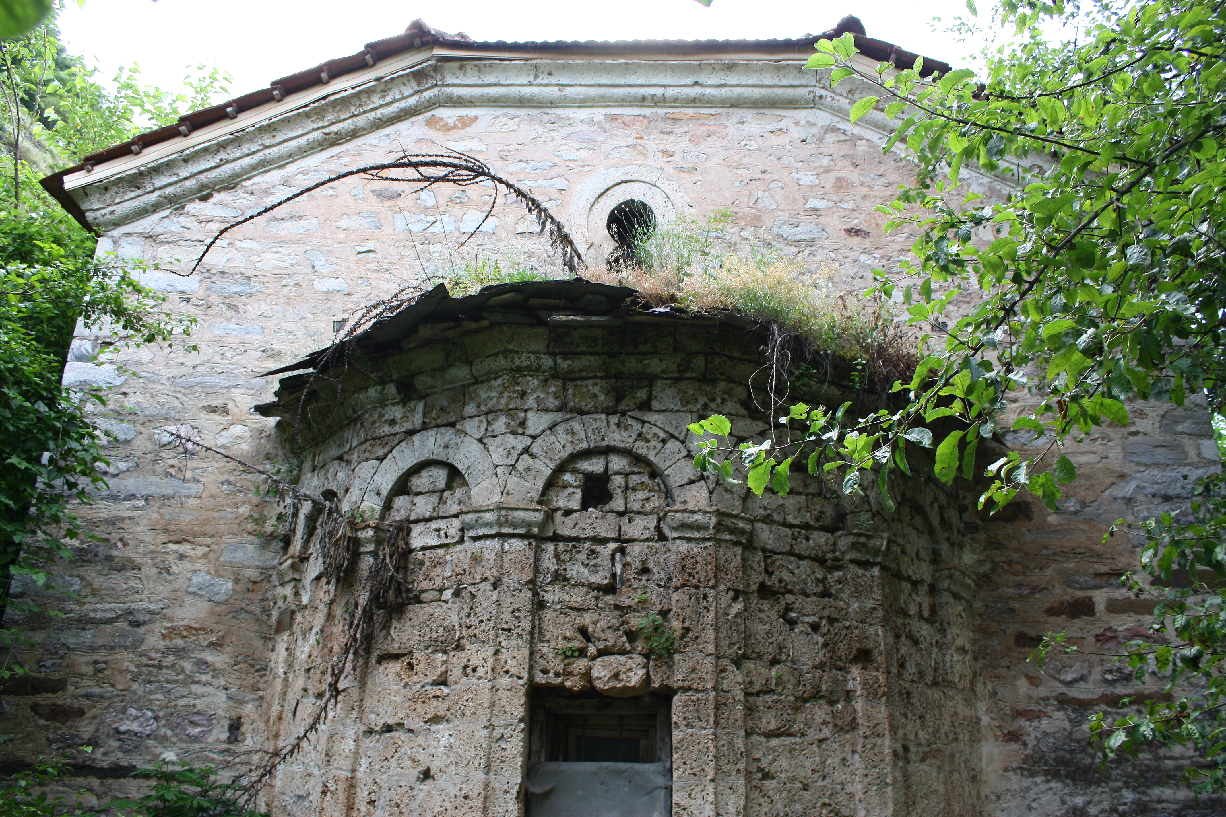 Holy Mother of God Church in Železnec, Macedonia